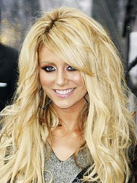 Aubrey O'Day of band Danity Kane.